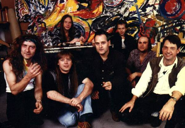 rockband schwoißfuaß at their revival tour 1996